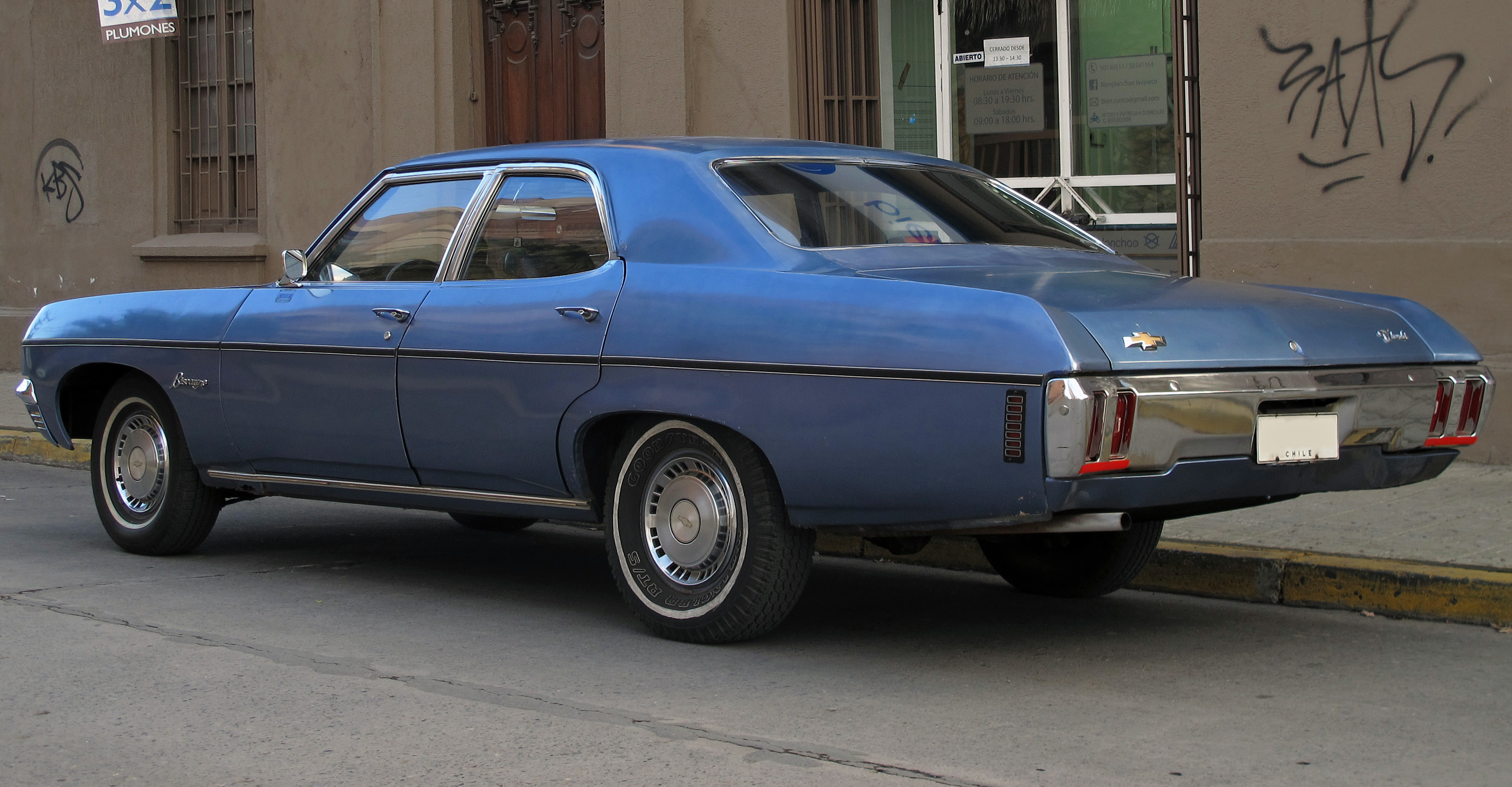 1970 Chevrolet Biscayne Sedan in Chile. Tires are a bit agricultural, otherwise a near perfect looking example.